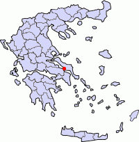 locator map, based on Image:Prefectures Greece grey.png